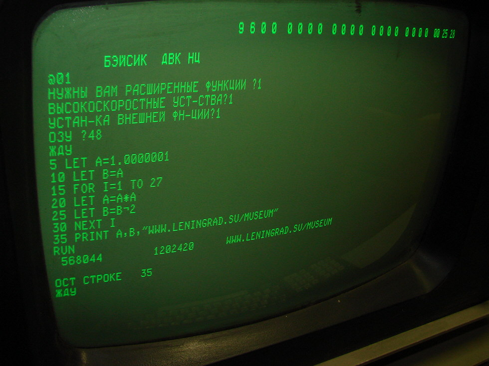 Basic interpreter on the USSR made DVK computer display.